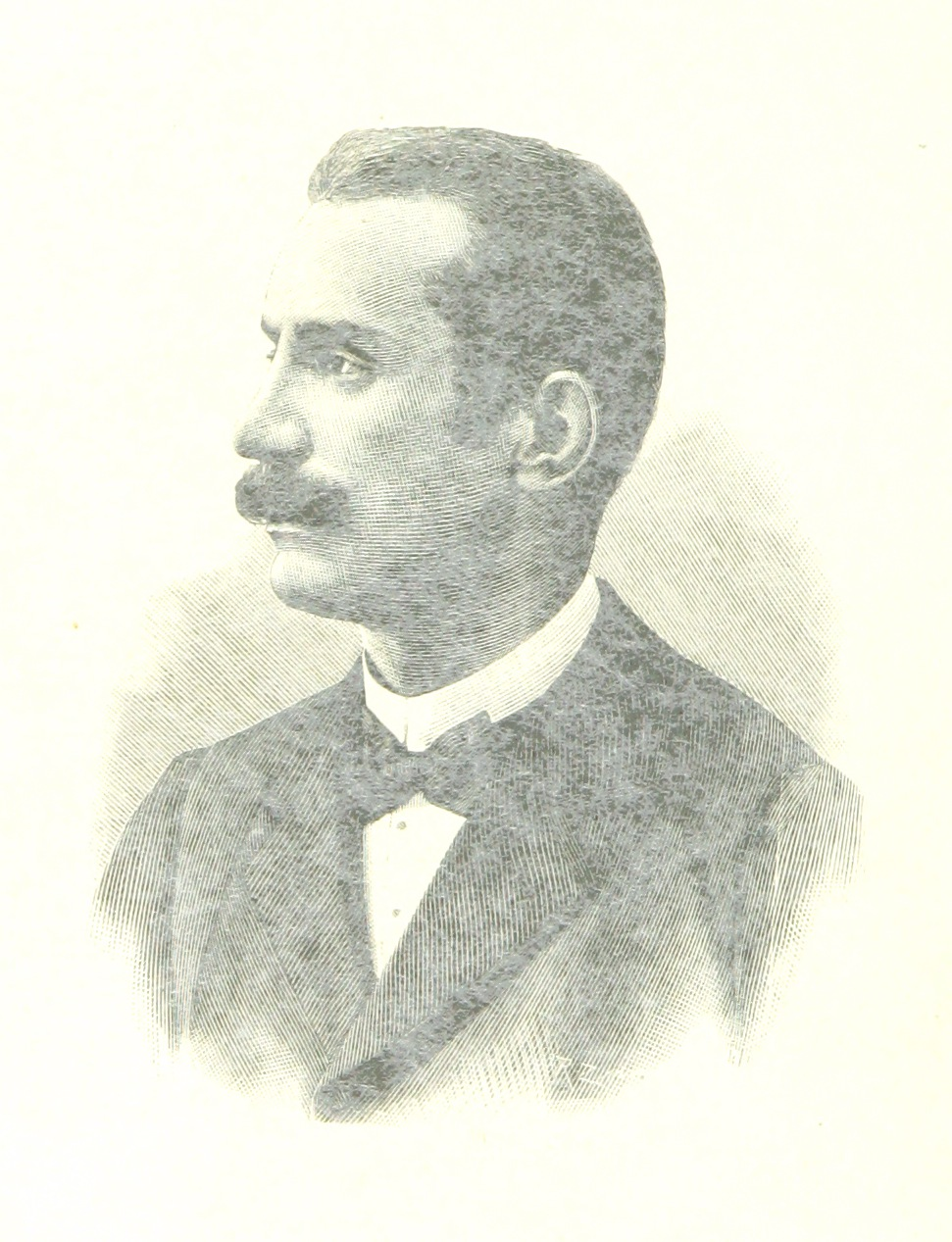 As per title